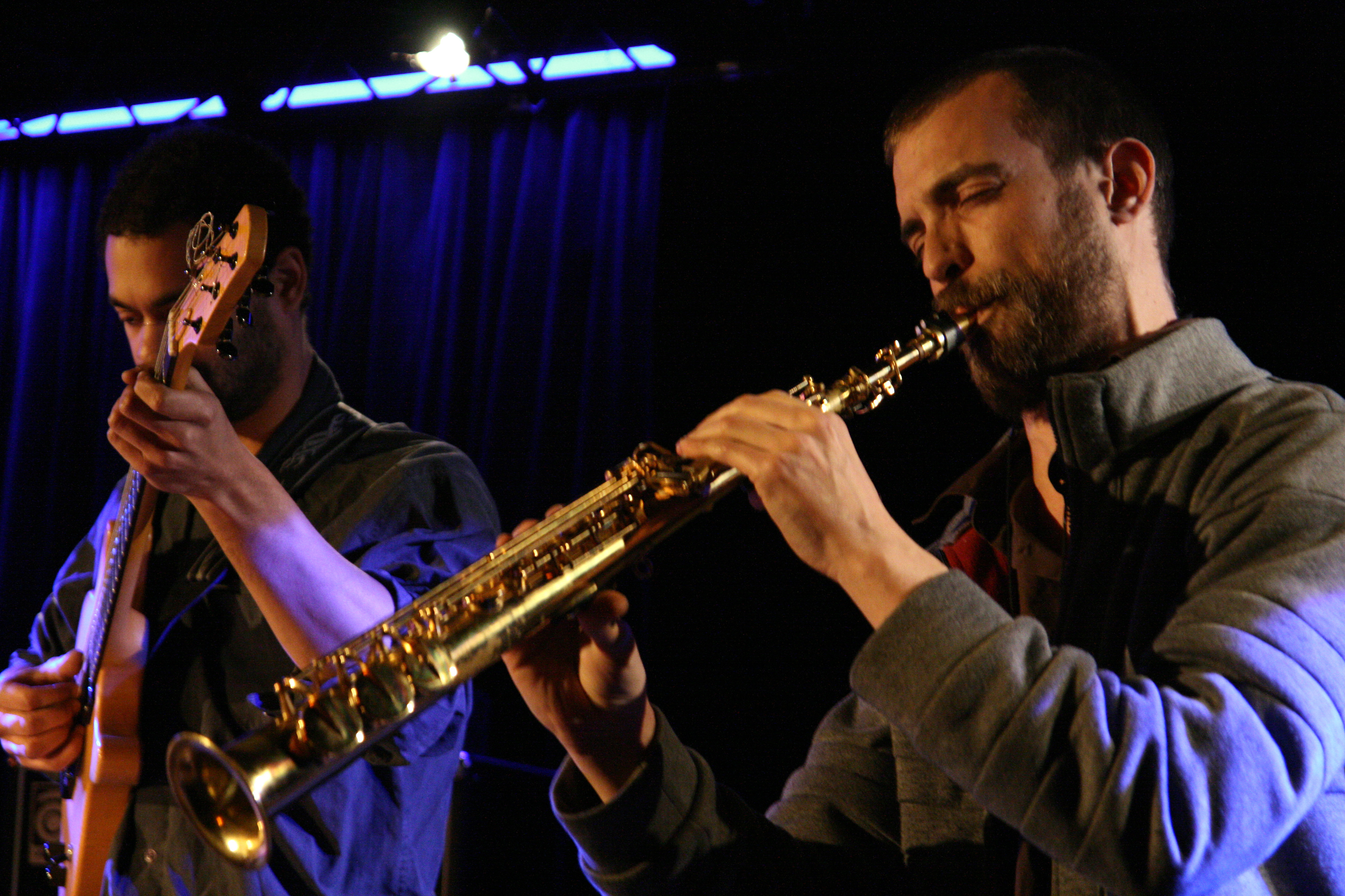 French jazz saxophonist Matthieu Donarier, live at Triton